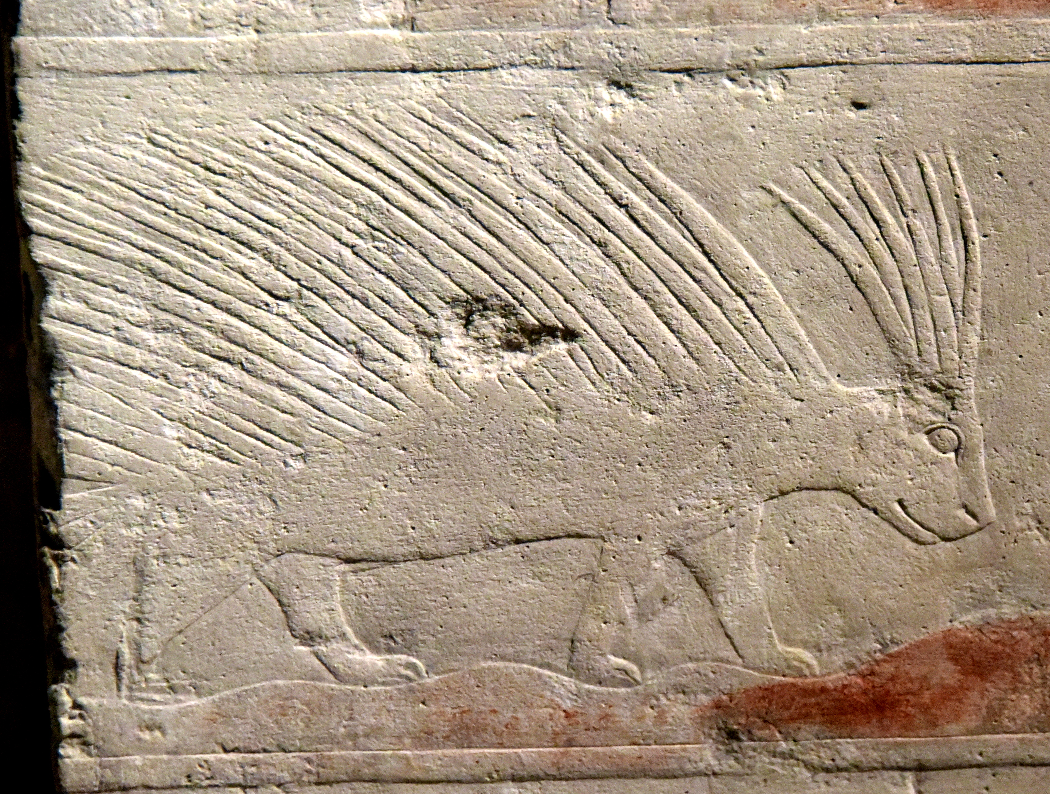 Relief of a porcupine in an Egyptian desert; detail of a wall fragment from the grave of Penhenuka at Saqqara, Egypt. Old Kingdom, 5th Dynasty, c. 2500 BCE. Neues Museum, Berlin, Germany. Painted limestone. ÄM 1132.